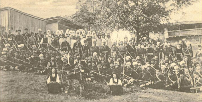 Cheta of IMARO member Penio Shivarov